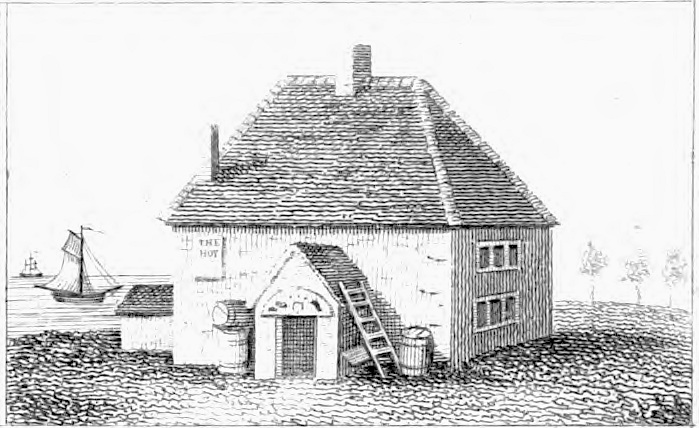 Image of the old vicarage at Reculver in use as an inn in 1809.